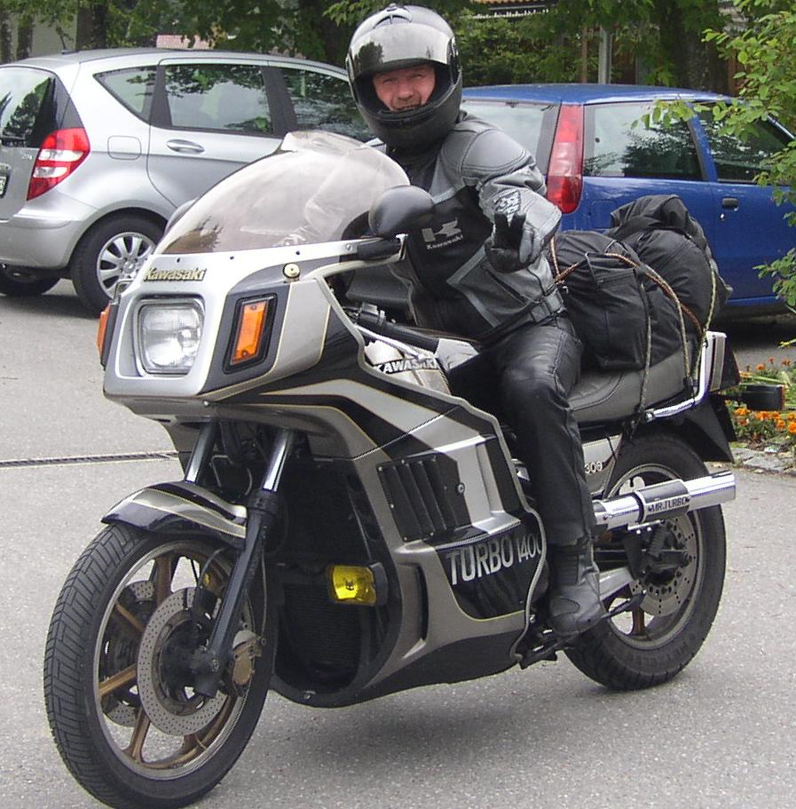 Godier Genoud Z1400 Turbo